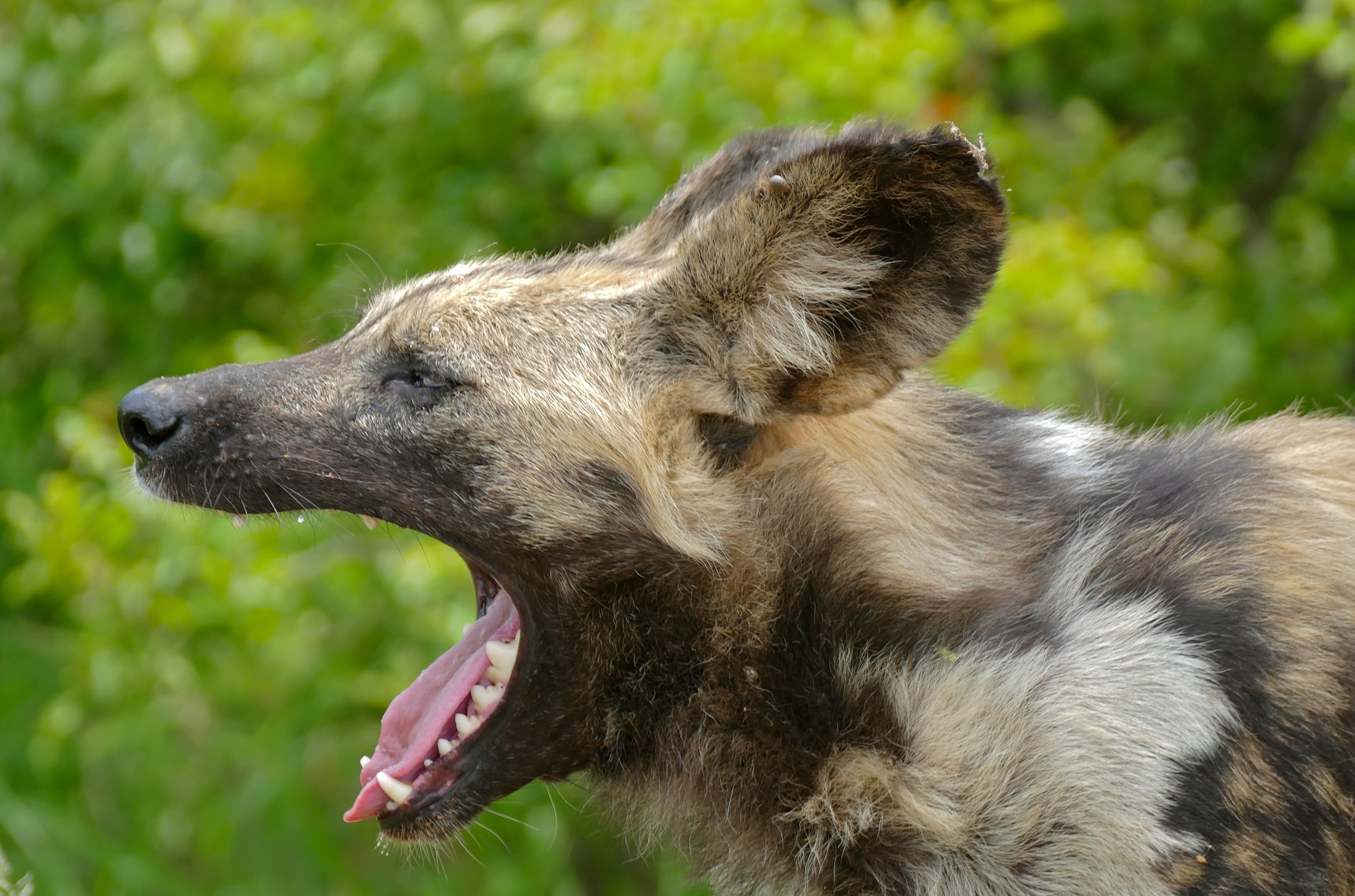 S28 Road South of Lower Sabie, Kruger NP, SOUTH AFRICA